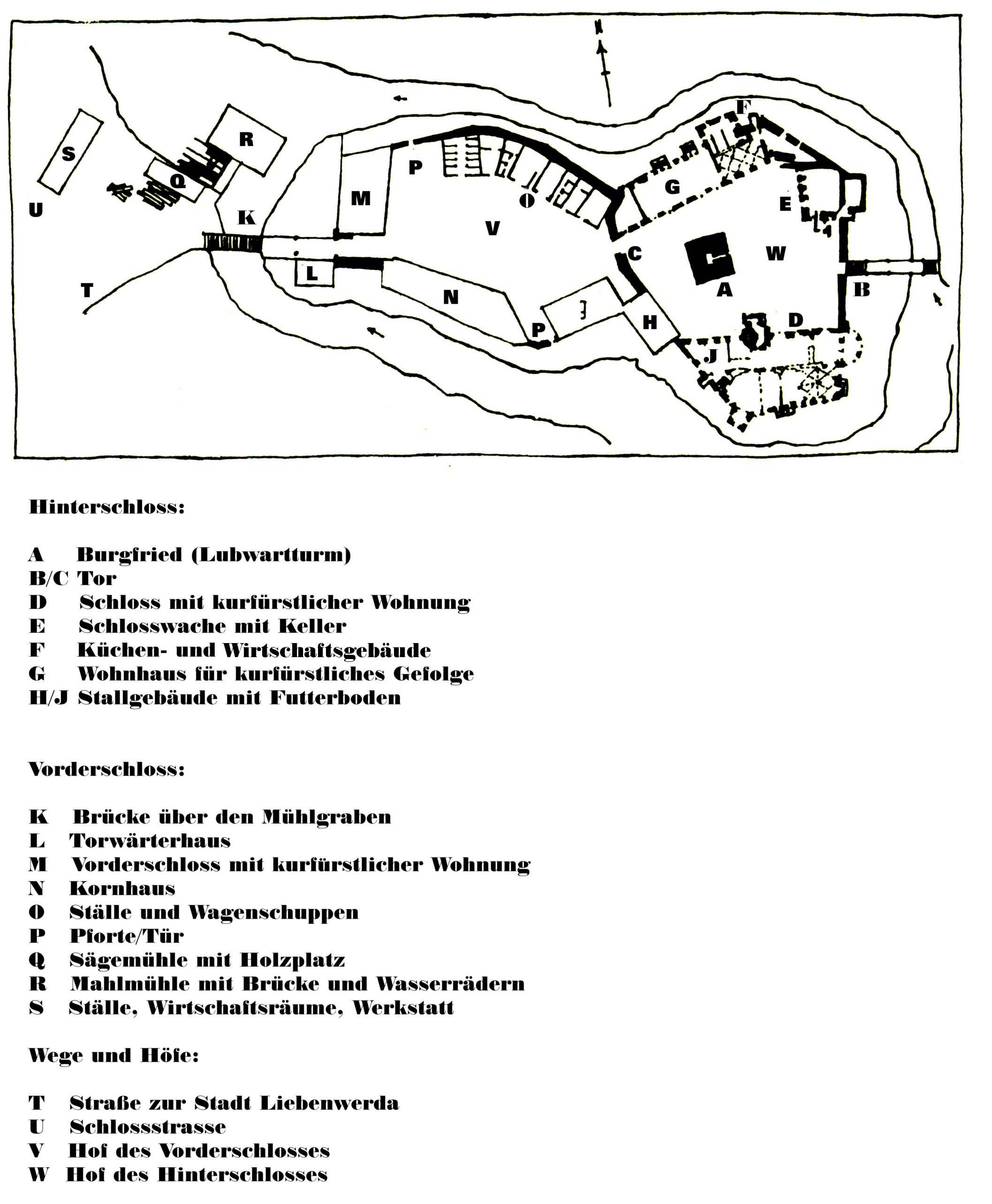 Map of the Liebenwerda Castle